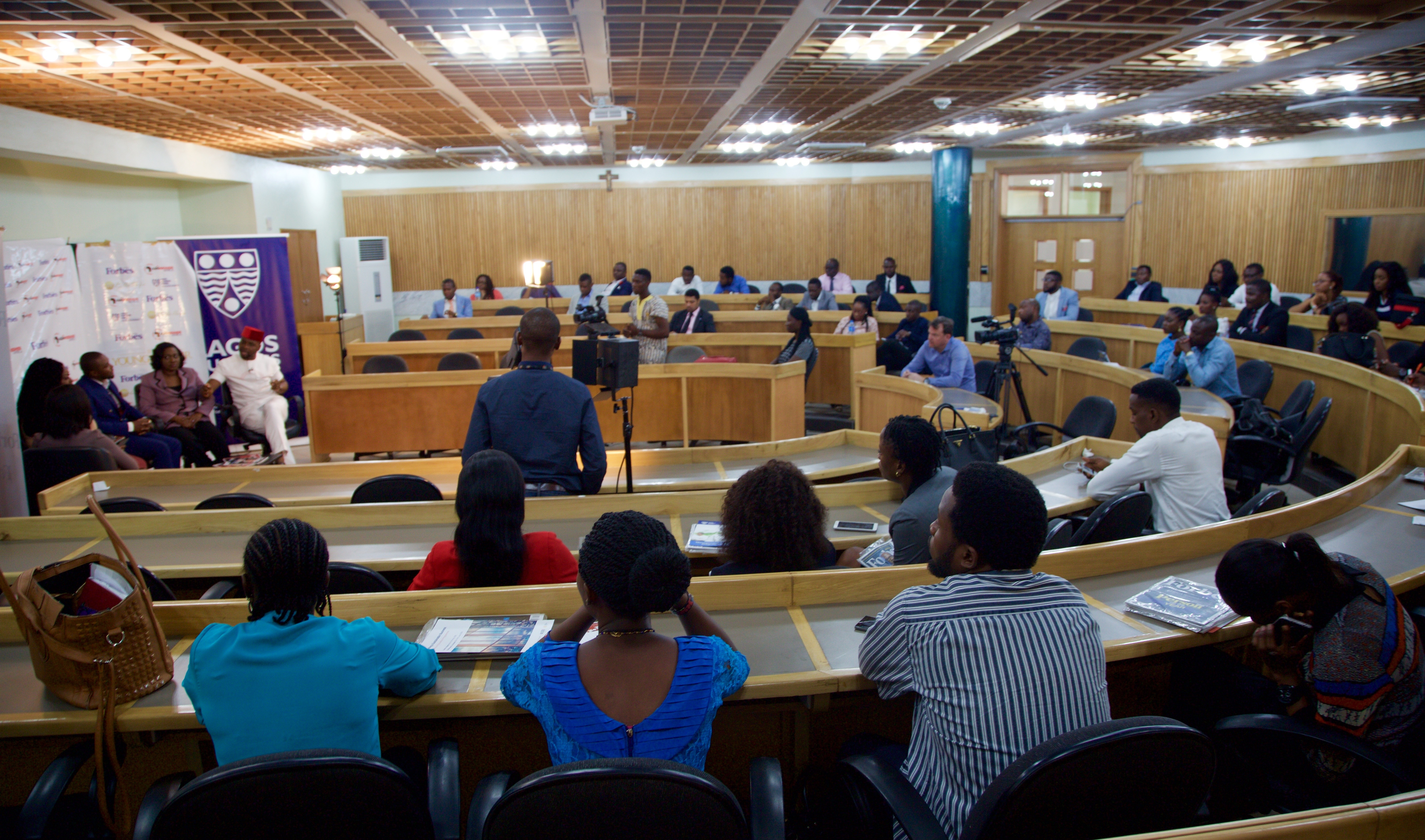 An AHA event in progress.